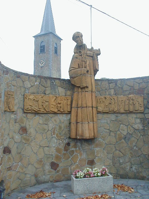 Sculpture picturing Saint Gerard, with the church of Saint-Gérard (Mettet, Wallonia) village by behind (image taken by L. Mahin) Walon: Posteure da sint Djuråd, avou l' eglijhe di Sint-Djuråd dins l' fond (poitrait saetchî pa L. Mahin)